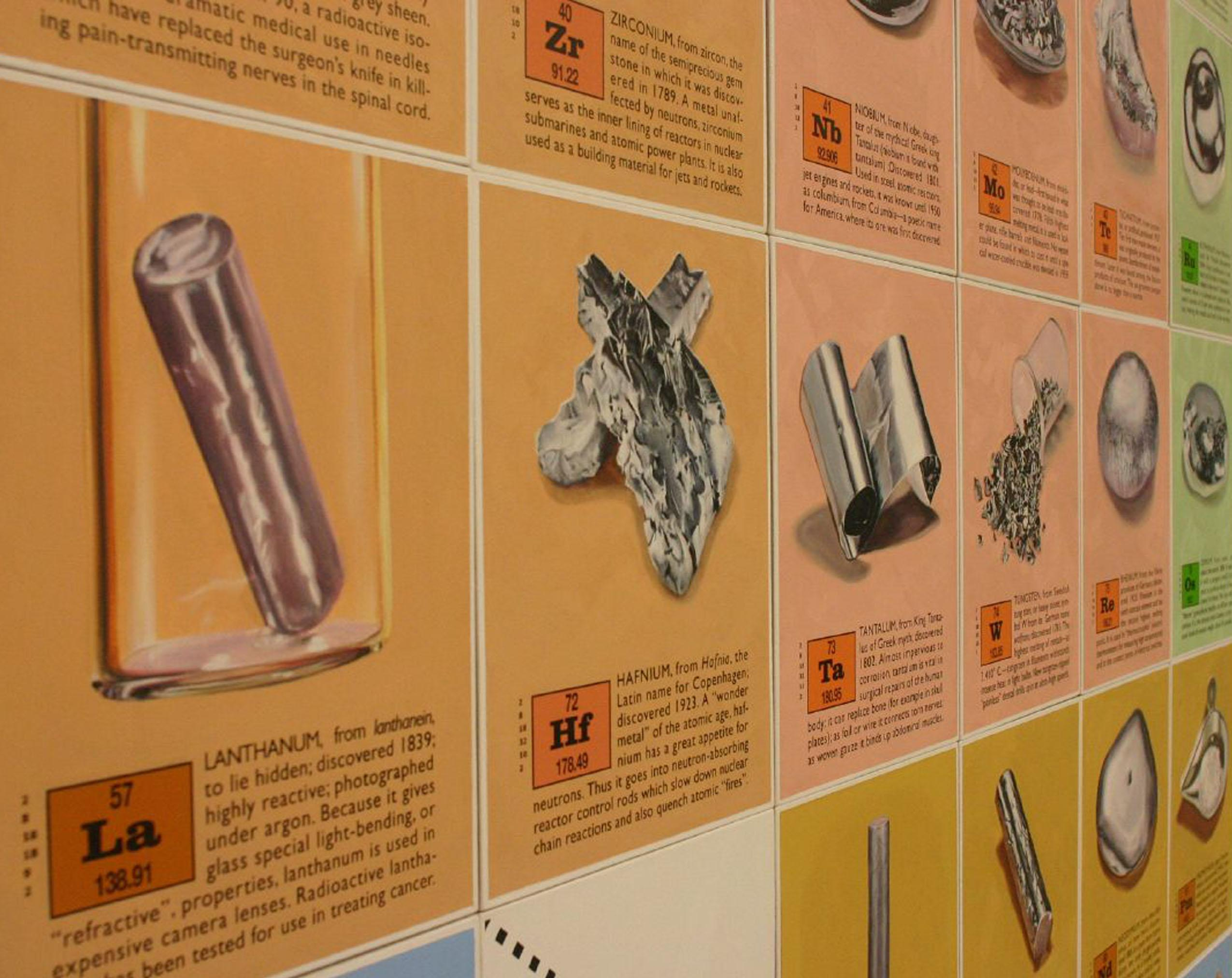 Cover art for the High School Chemistry Wikibook. Shows an angled photo of a periodic table.